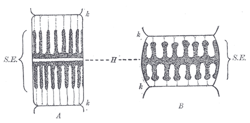 Diagram of a sarcomere. (After Schäfer.) A. In moderately extended condition. B. In a contracted condition. k, k. Membranes of Krause. H. Line or plane of Hensen. S.E. Poriferous sarcous element.